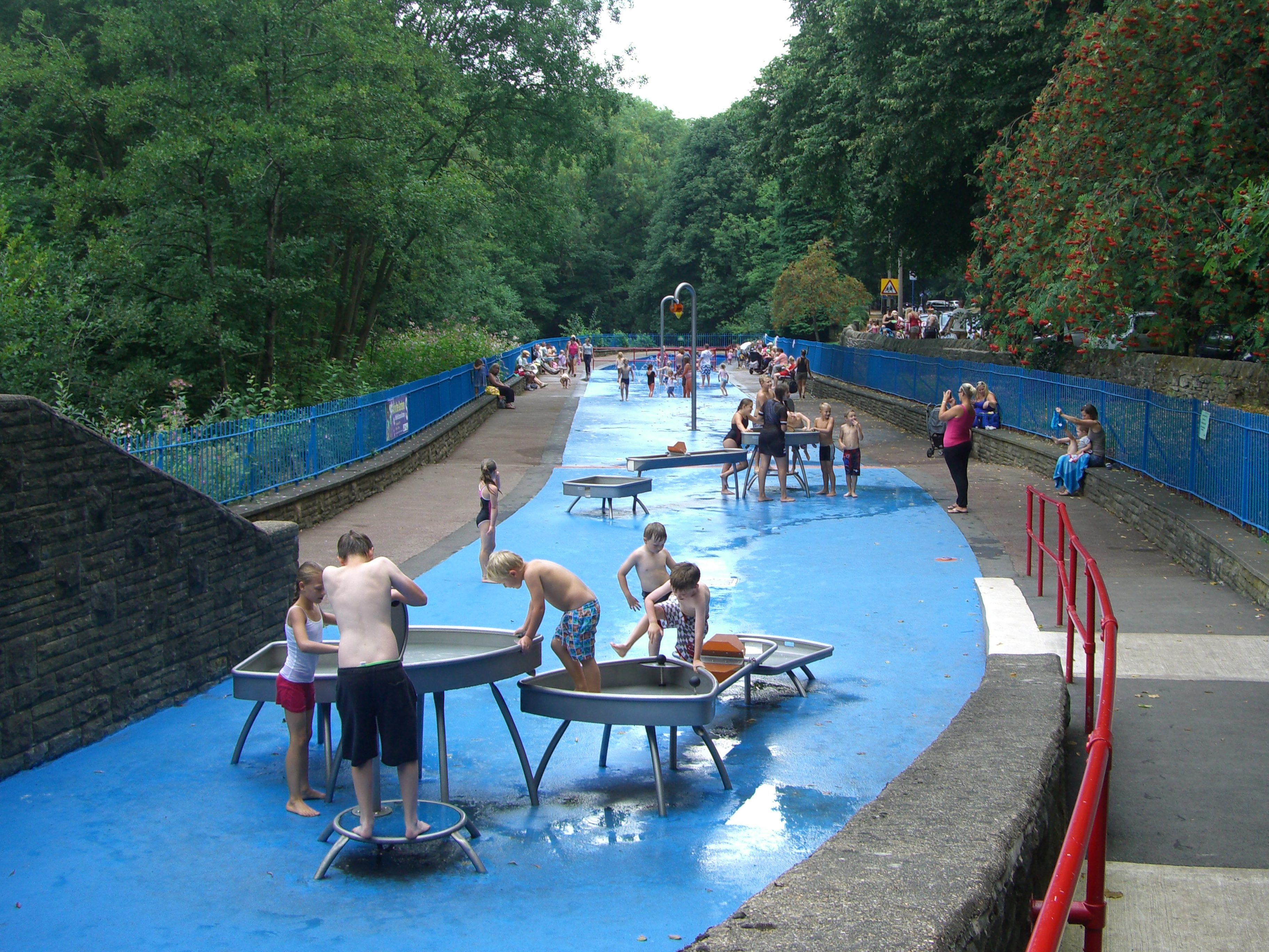 The new Splash Pools at Rivelin Valley Park in Sheffield, England. These pools replace the old paddling pools and were opened in July 2013.